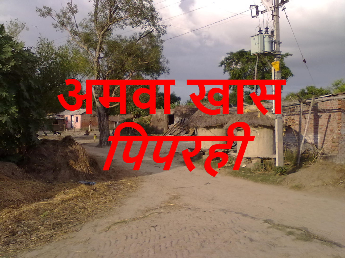 Chhoti piparahi